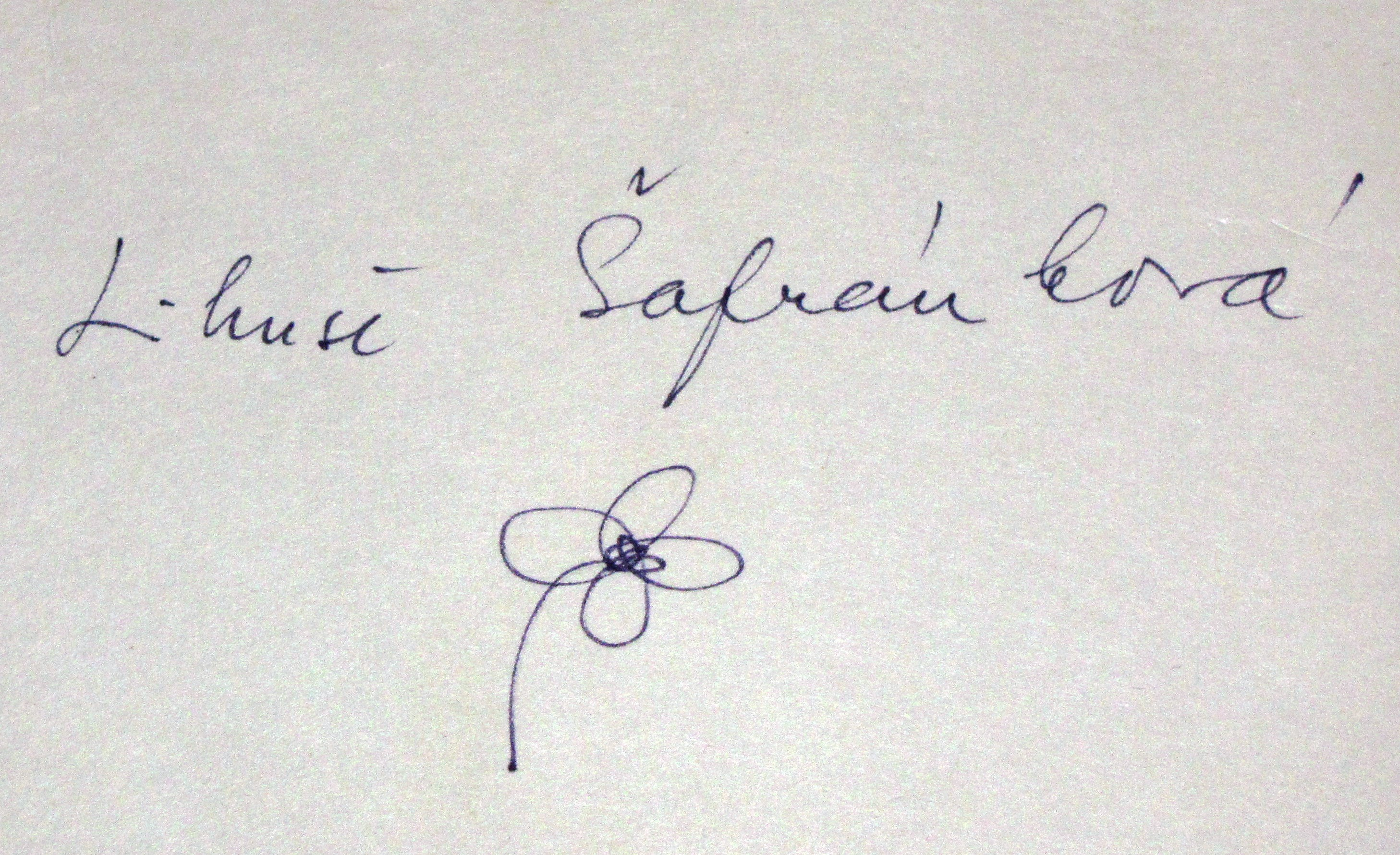 Autograph of Libuše Šafránková, Czech actress (1988)